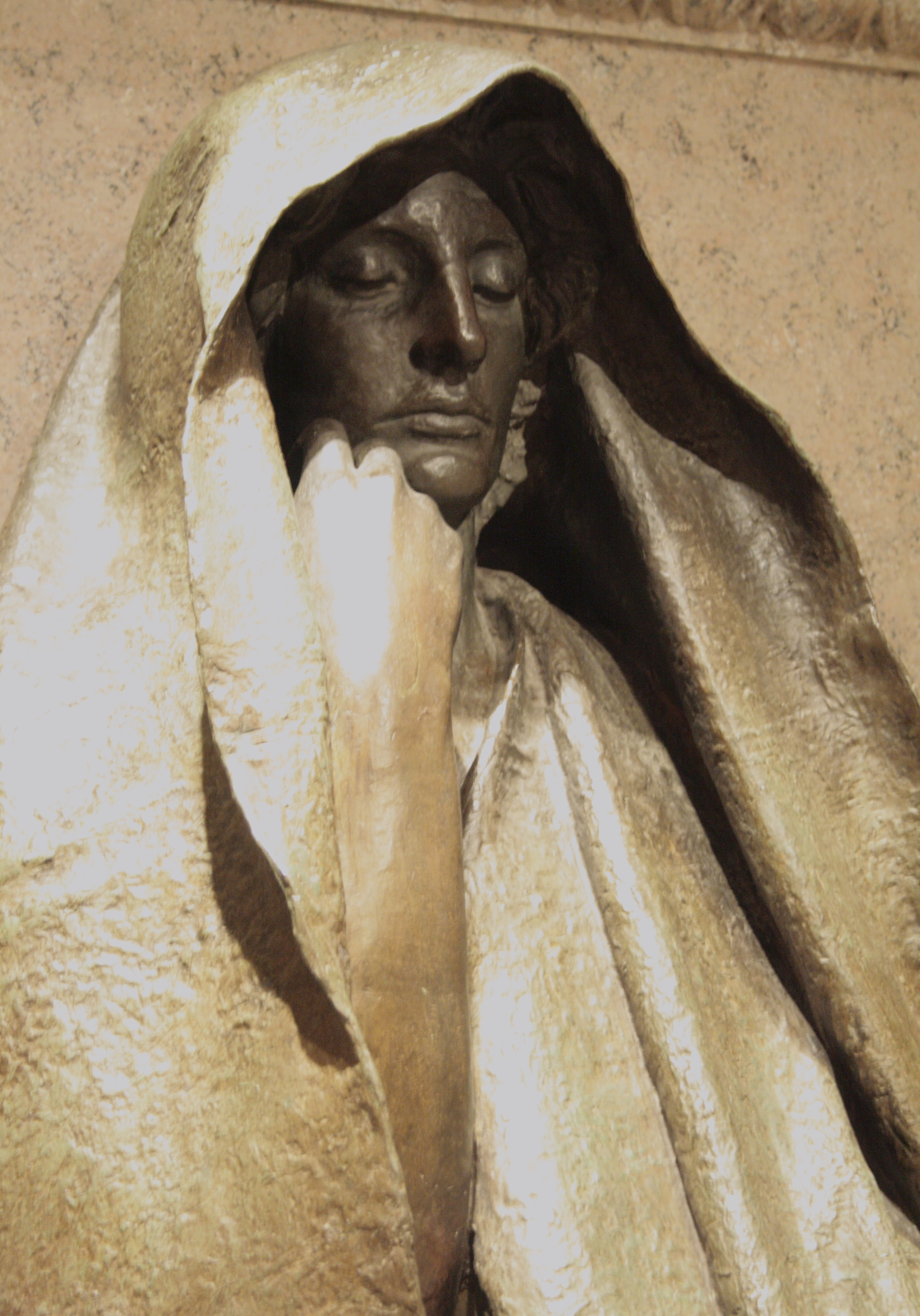 Adams Memorial modeled 1886-1891, cast 1969 Augustus Saint-Gaudens Born: Dublin, Ireland 1848 Died: Cornish, New Hampshire 1907 Roman Bronze Works (Founder) bronze 69 7/8 x 39 7/8 x 44 1/2 in. (177.4 x 101.4 x 112.9 cm.) Smithsonian American Art Museum Museum purchase 1970.11 Smithsonian American Art Museum Wikipedia Loves Art at the Smithsonian American Art Museum This photo of item # 1970.11 at the Smithsonian American Art Museum was contributed under the team name "red_herring" as part of the Wikipedia Loves Art project in February 2009. Smithsonian American Art Museum The original photograph on Flickr was taken by rdherring5—please add a comment to the original Flickr page whenever a use has been made on Wikipedia or another project. Project galleries on Flickr: this institution, this team